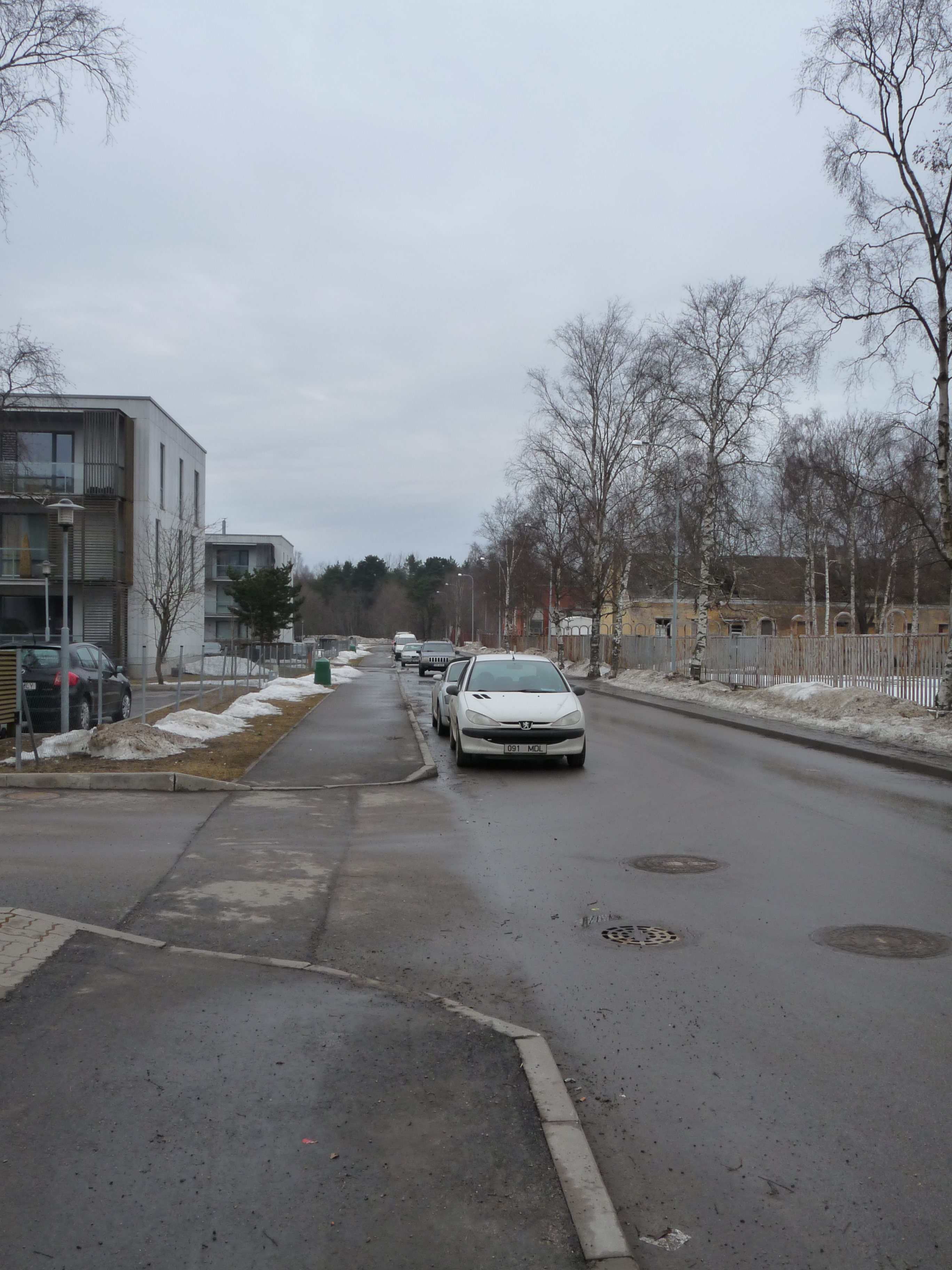 Pähkli (nut's) street in Tallinn